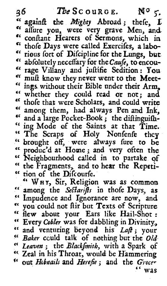 Page from issue 5 of The Scourge, in vindication of the Church of England, a weekly sheet by Thomas Lewis. The page is a High Church attack on the nonconformists of 75 years earlier, at the time of the Bangorian controversy.